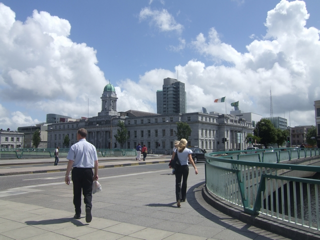 Cork City Hall - Anglesea Street